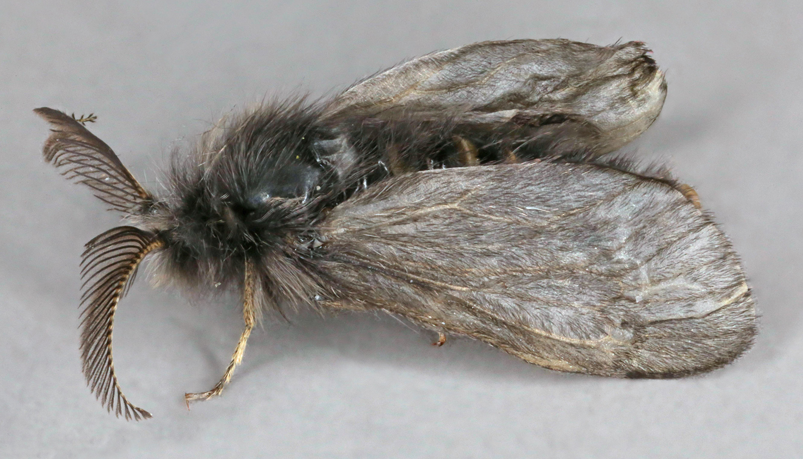 Acanthopsyche atra male, Trawscoed, North Wales, May 2016